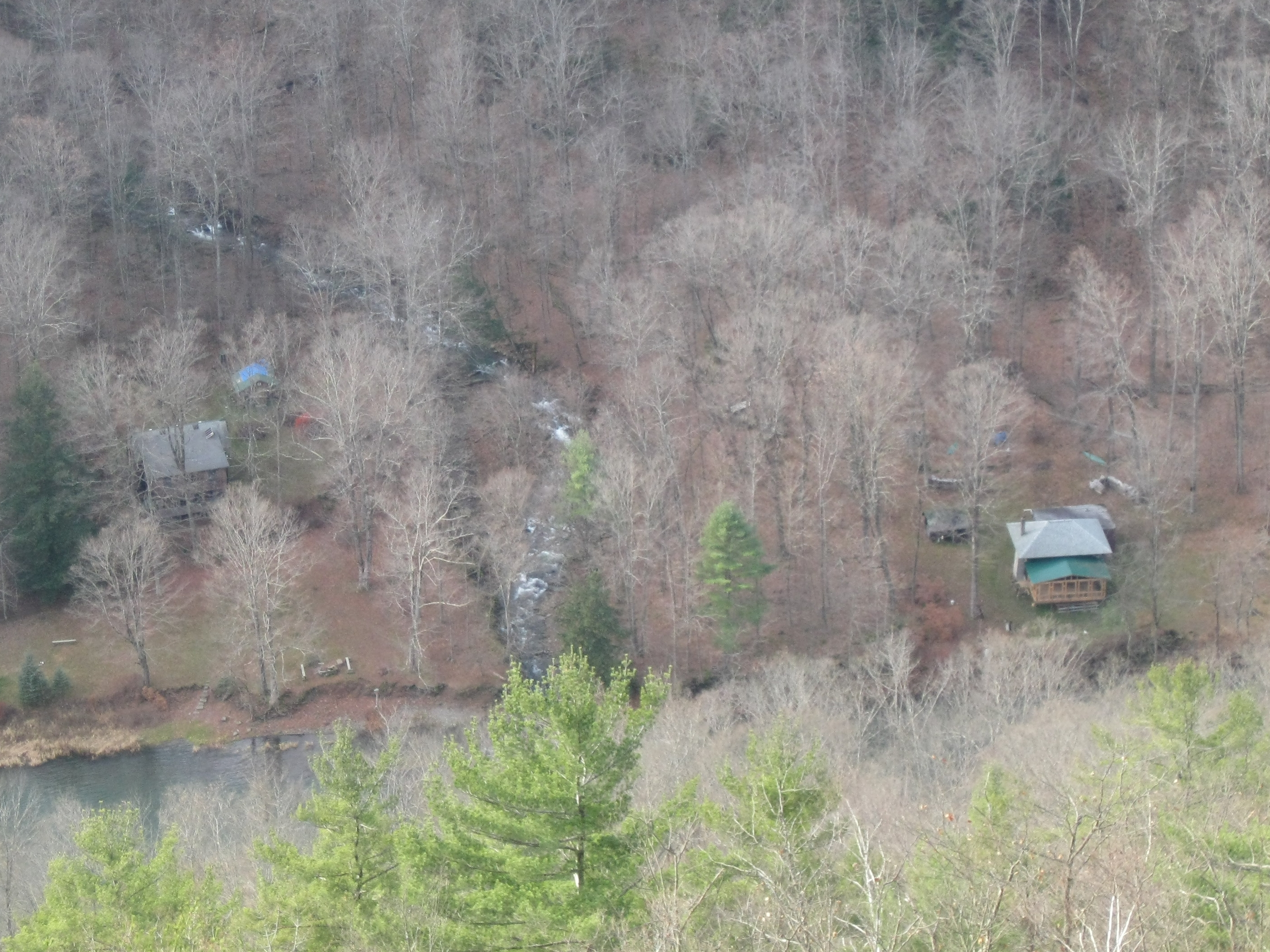 Two private cabins in Pine Creek Gorge on west bank of Pine Creek, on either side of Four Mile Run looking down from the main vista in Leonard Harrison State Park in Shippen Township, Tioga County, Pennsylvania, United States. Left cabin once owned by PA Governor Stone, right cabin by Leonard Harrison.